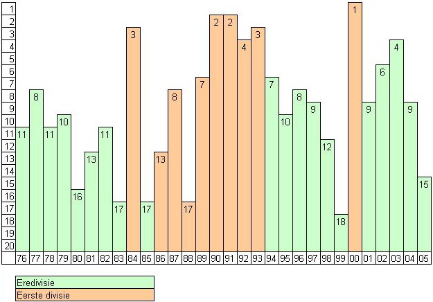 Dutch league positions of NAC, last 30 seasons